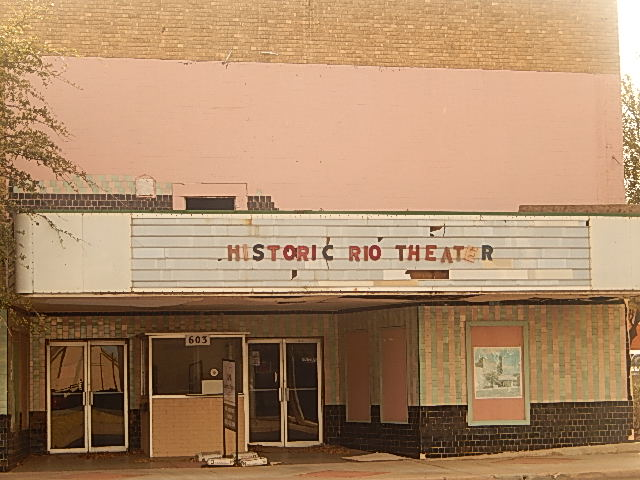 I took photo of abandoned Rio Theatre Building in Odessa, TX, with Nikon camera.